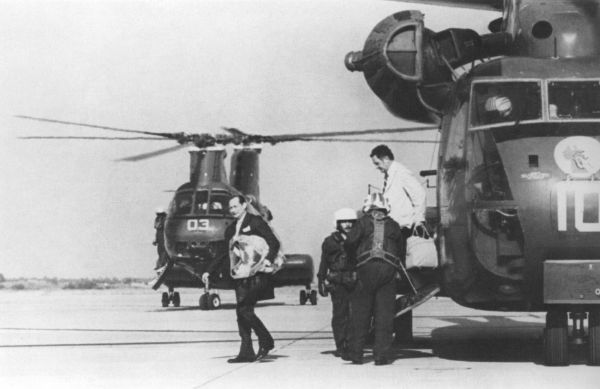 U.S. Ambassador to the Khmer Republic, John Gunther Dean, steps off an HMH-462 CH-53 at U-Tapao on the afternoon of 12 April